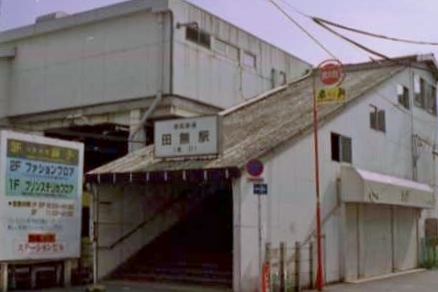 The south entrance at Tanashi Station on the Seibu Shinjuku Line